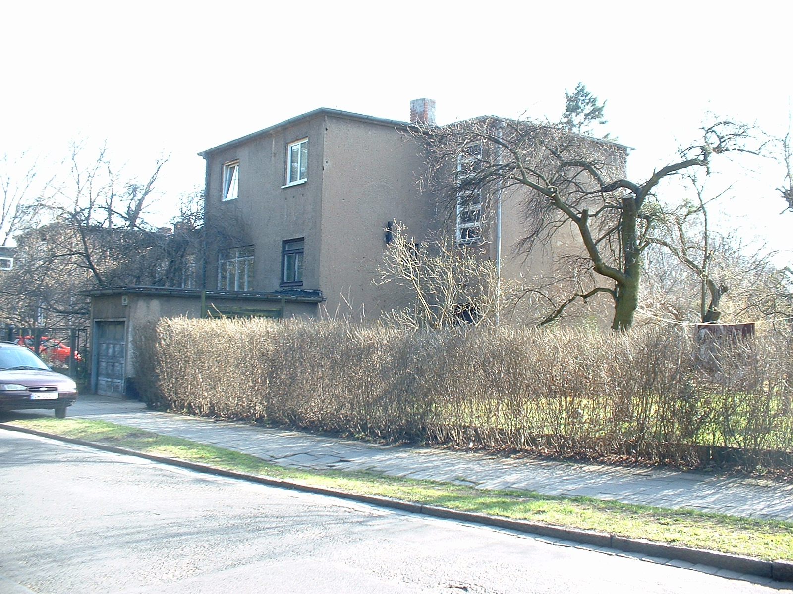 Wrocław, WUWA, 1929, detatched house with garage No. 28 by Emil Lange. Presently private property.